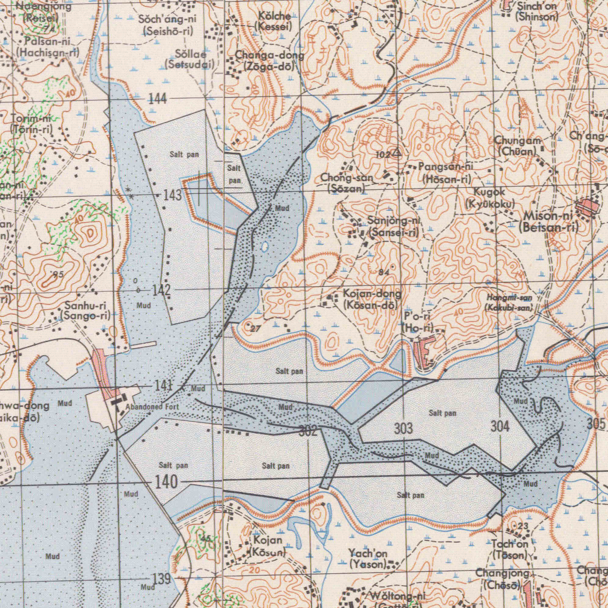 1946 Map of Inchon/Kyonggi, South Korea by the Army Map Service, U.S. Army